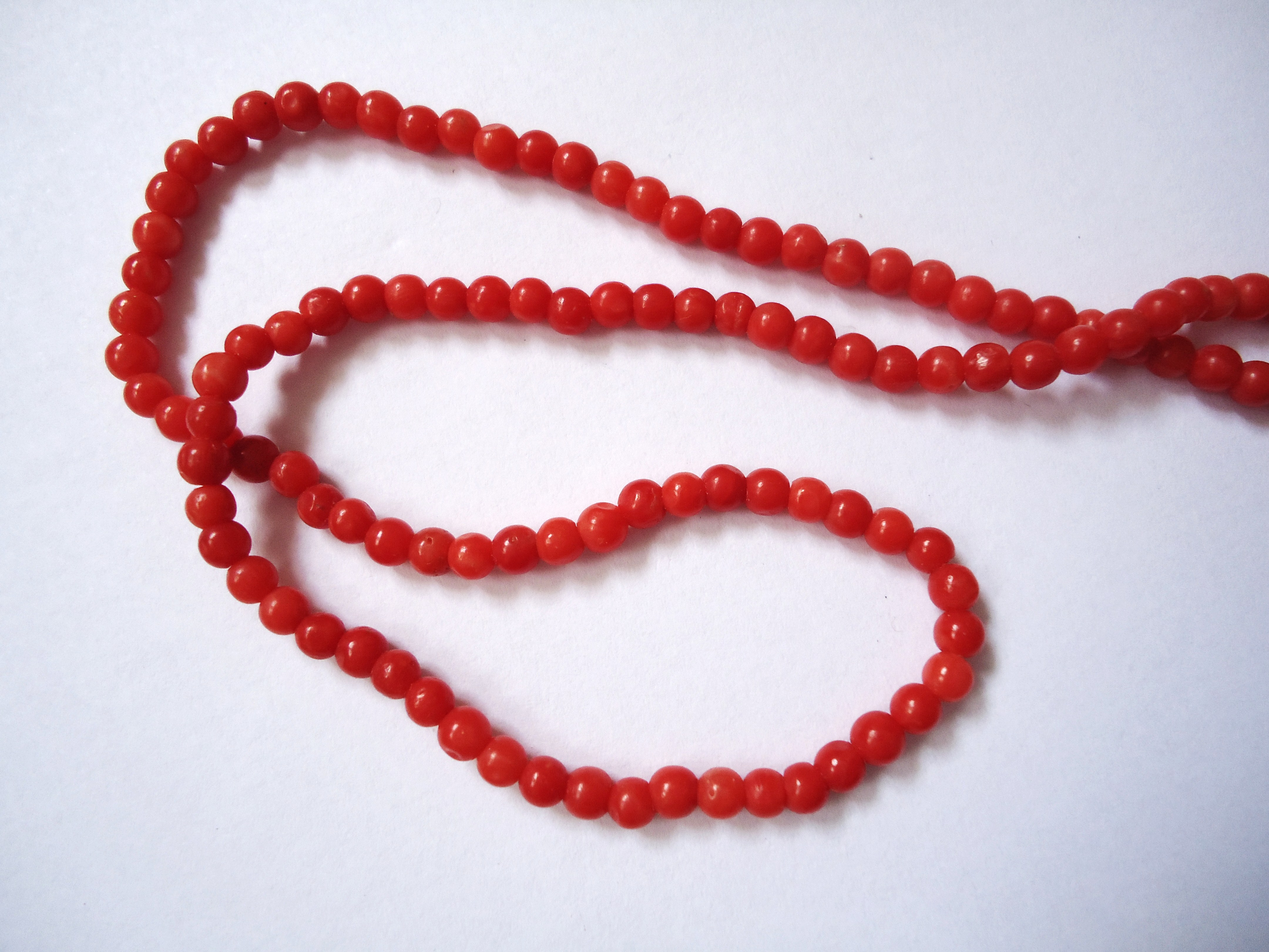 Red coral beads. Photo : Mauro Cateb, Brazilian jeweler.